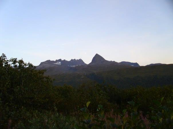 peaks of the Chugach Mountains seen from Bluberry Lake State Recreation Site, Alaska